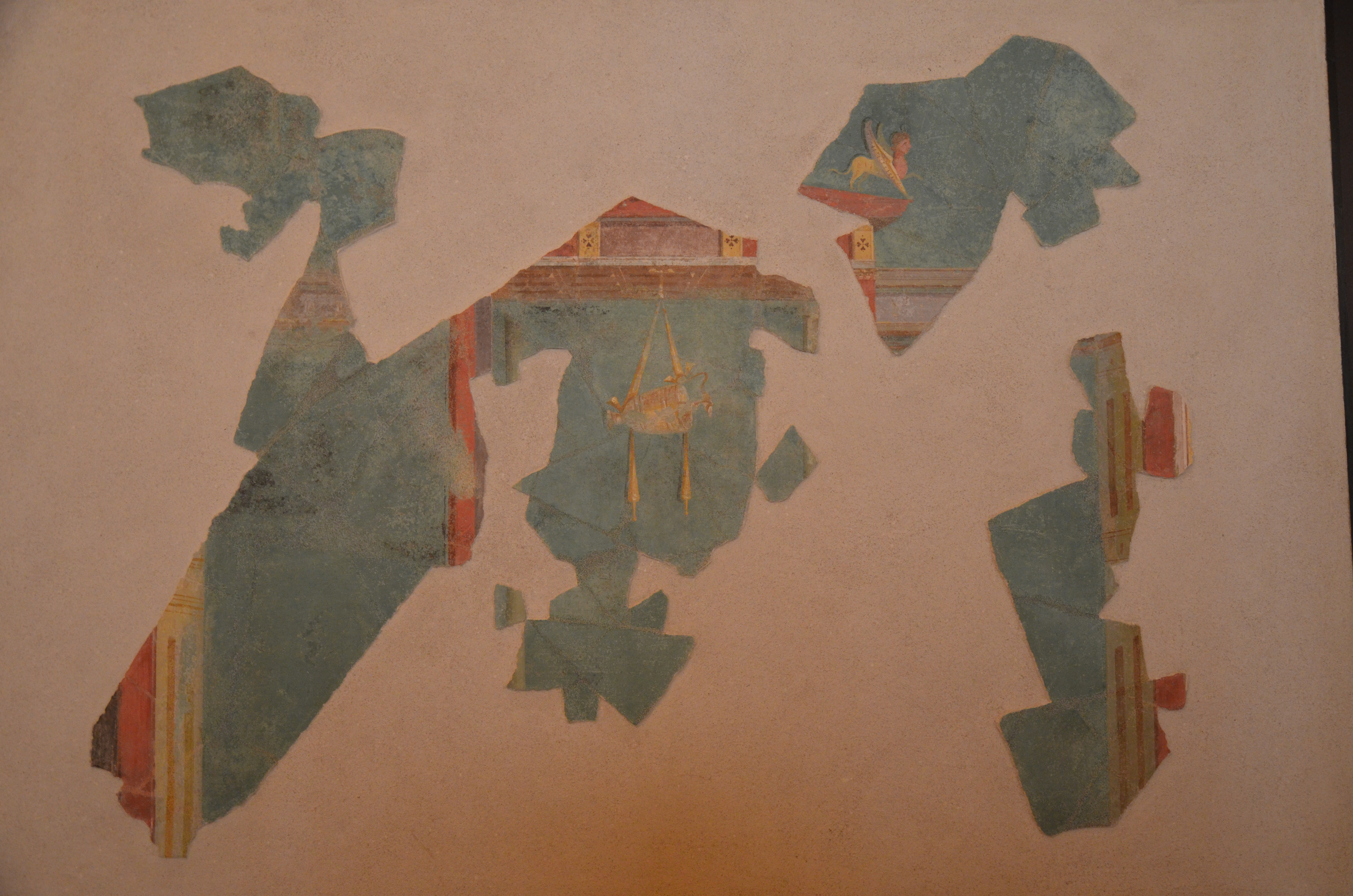 Archaeological Museum of Formia, Italy